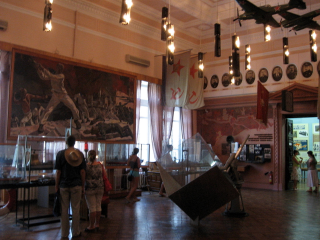 Hall of WW2